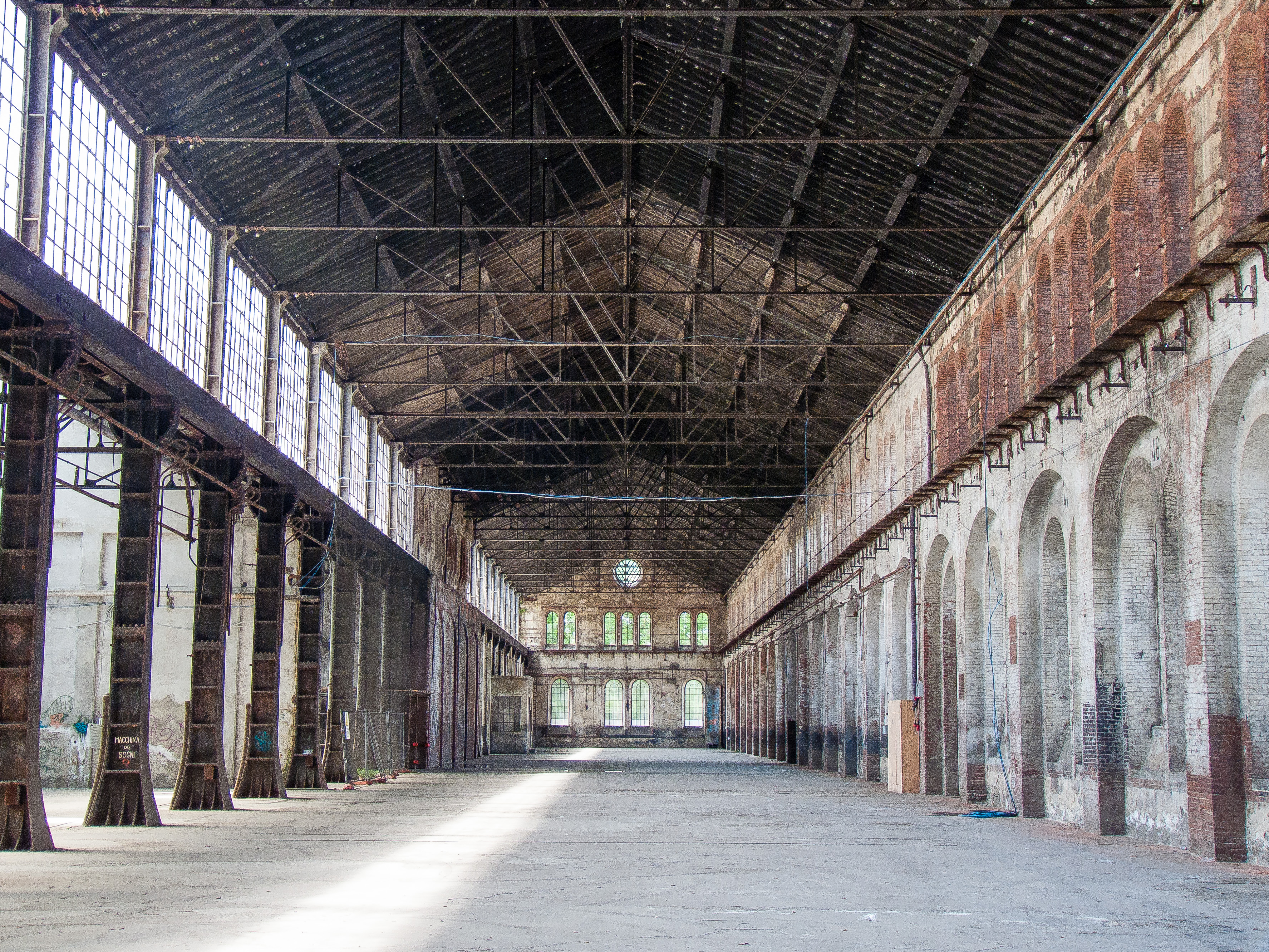 The OGR - Officine Grandi Riparazioni (Big Repair Shops) are one of the last vestiges of Turin's industrial past. Built between 1885 and 1895, they became the first engine of development of the San Paolo neighborhood. Stretching over an area of more than 190,000 square meters, the buildings were used to build and repair locomotives and carriages. The H-shaped complex is a work of great architectural and monumental impact. Inside two rows of cast iron pillars create a spectacular nave and aisle structure, a true "industry cathedral". Abandoned for many years, the OGR are now the object of an architectural and functional restoration which aims to transform the complex into a large exhibit centre.